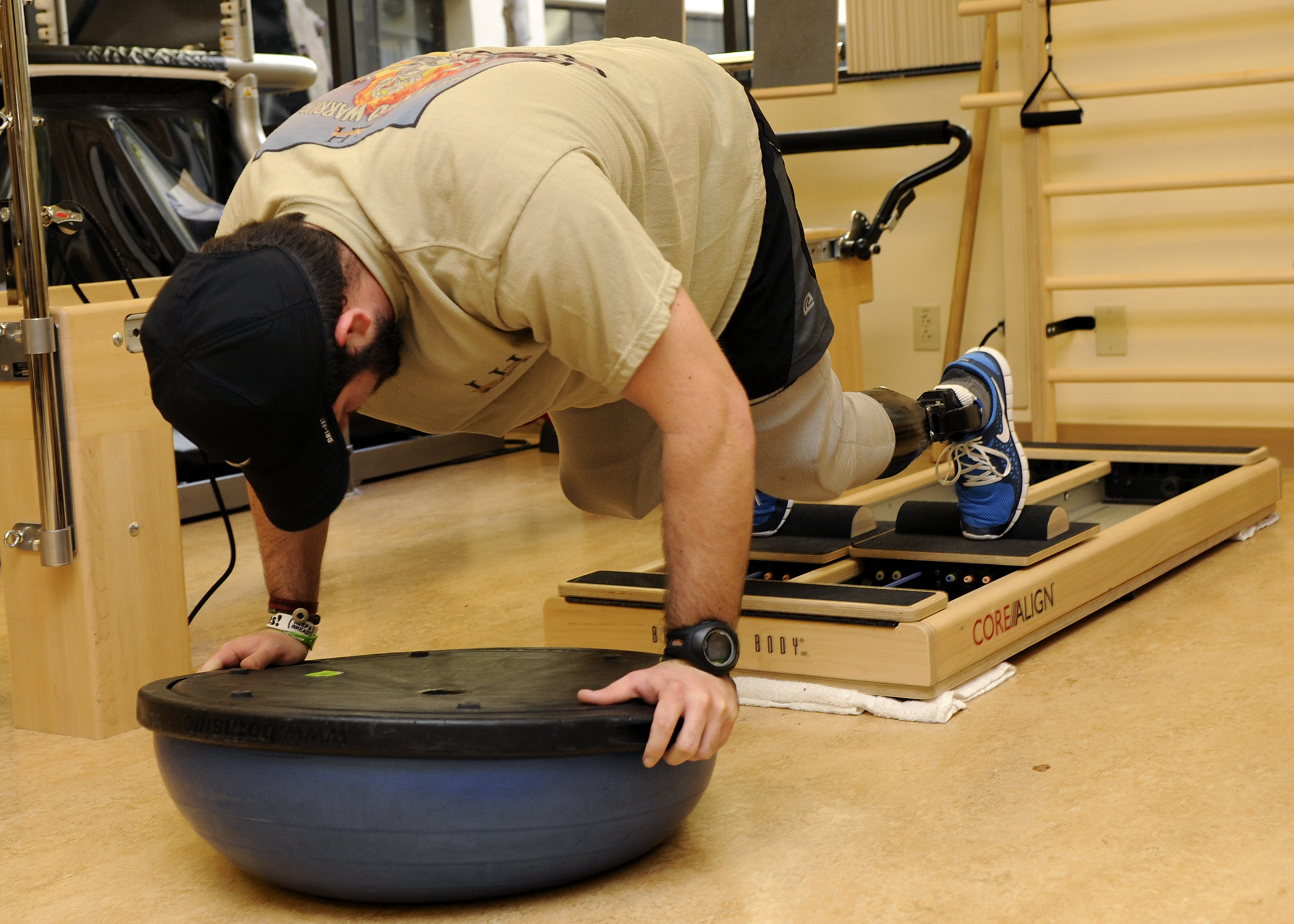 SAN DIEGO (March 9, 2010) A Sailor mountain climbers using the core align pilates machine during a physical therapy appointment in the Comprehensive Combat and Complex Casualty Care facility at Naval Medical Center San Diego. (U.S. Navy photo by Mass Communication Specialist 1st Class Anastasia Puscian/Released)